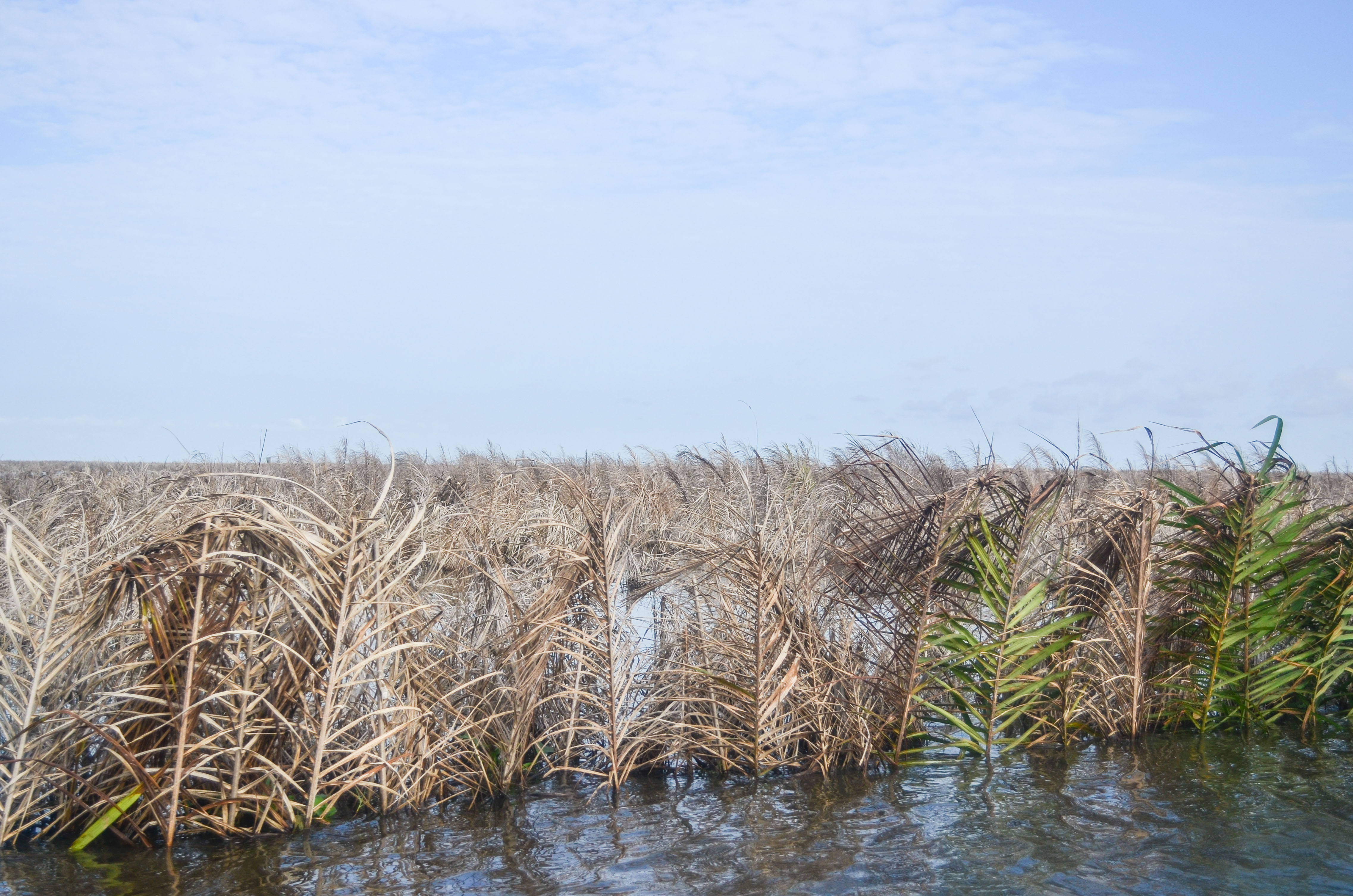 Taken on 05 October 2013 in Benin around Ganvié : Cycling Africa beyond mountains and deserts until Cape Town